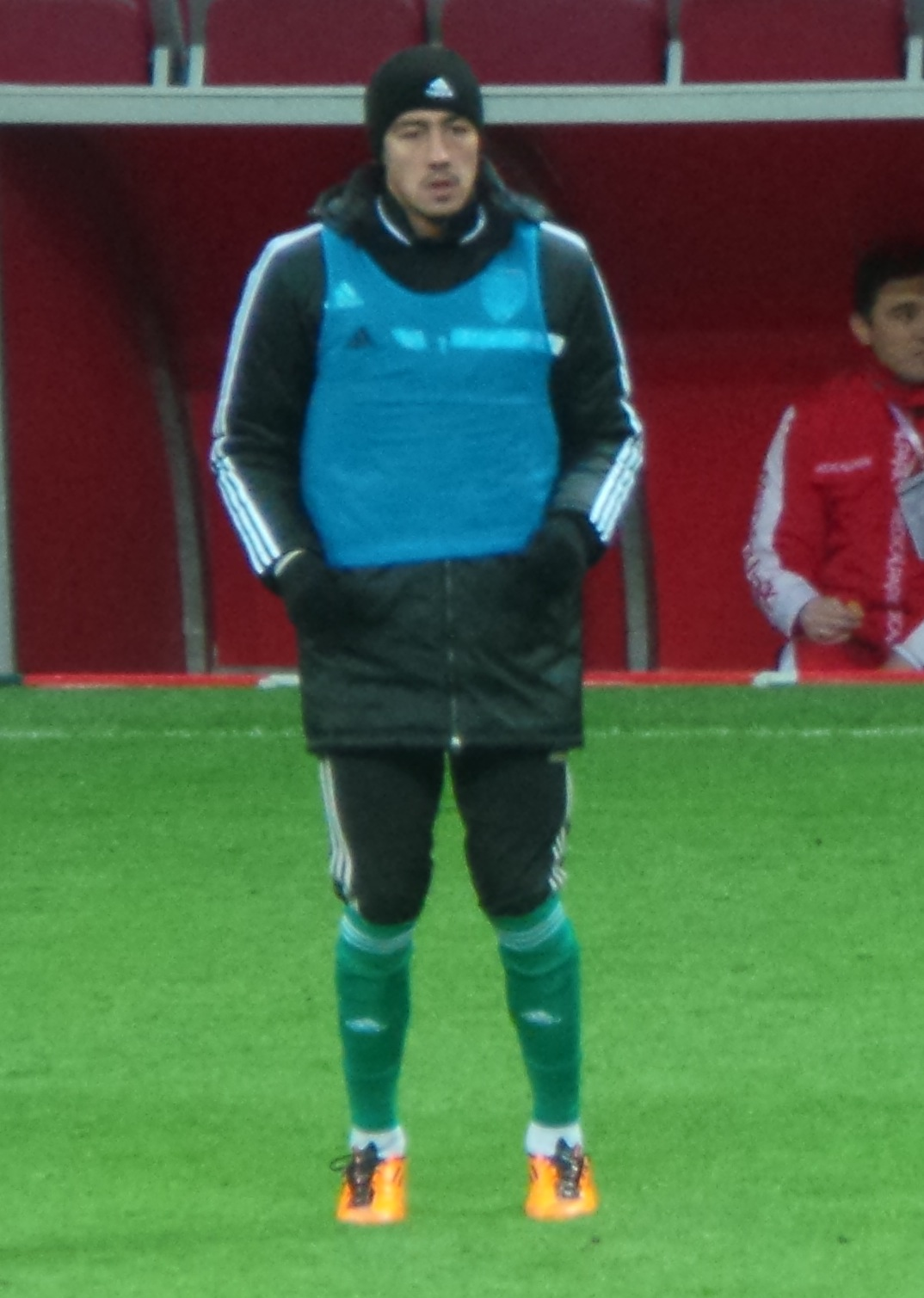 Ahmet Üçgün